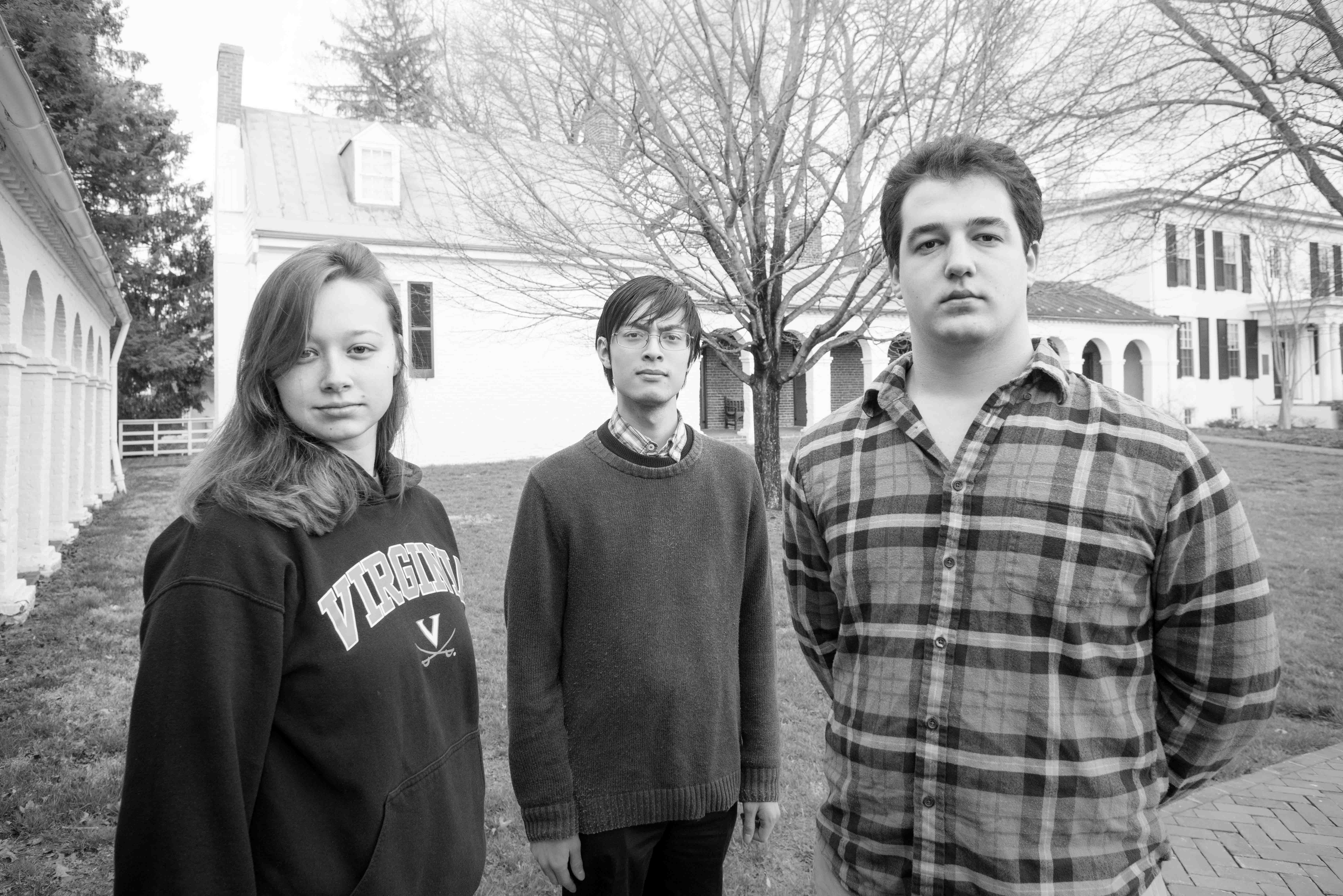 Student-Crew on the set of Monroe Hill. The production still was taken in front of the building known as the Law Office of James Monroe at the University of Virginia. As many as 25 students worked on the production of “Monroe Hill” the documentary.